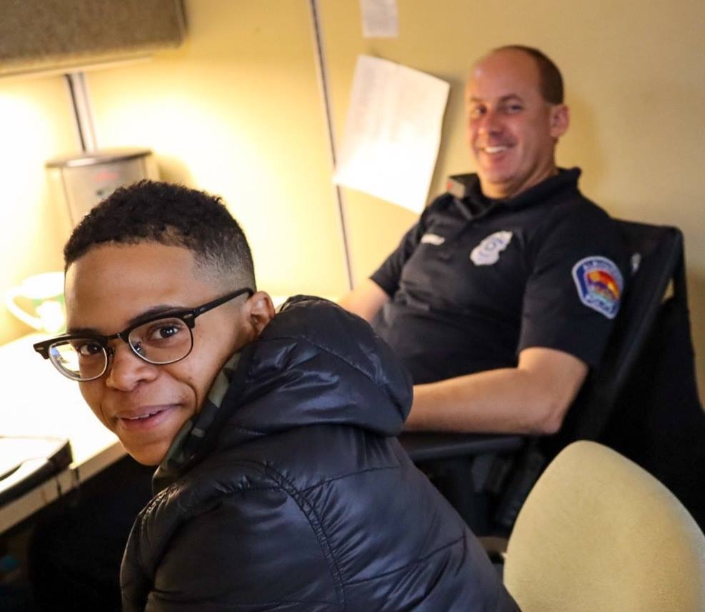 The Albuquerque Police Department's Mobile Crisis Team collaboration